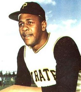 Professional baseball player Willie Stargell